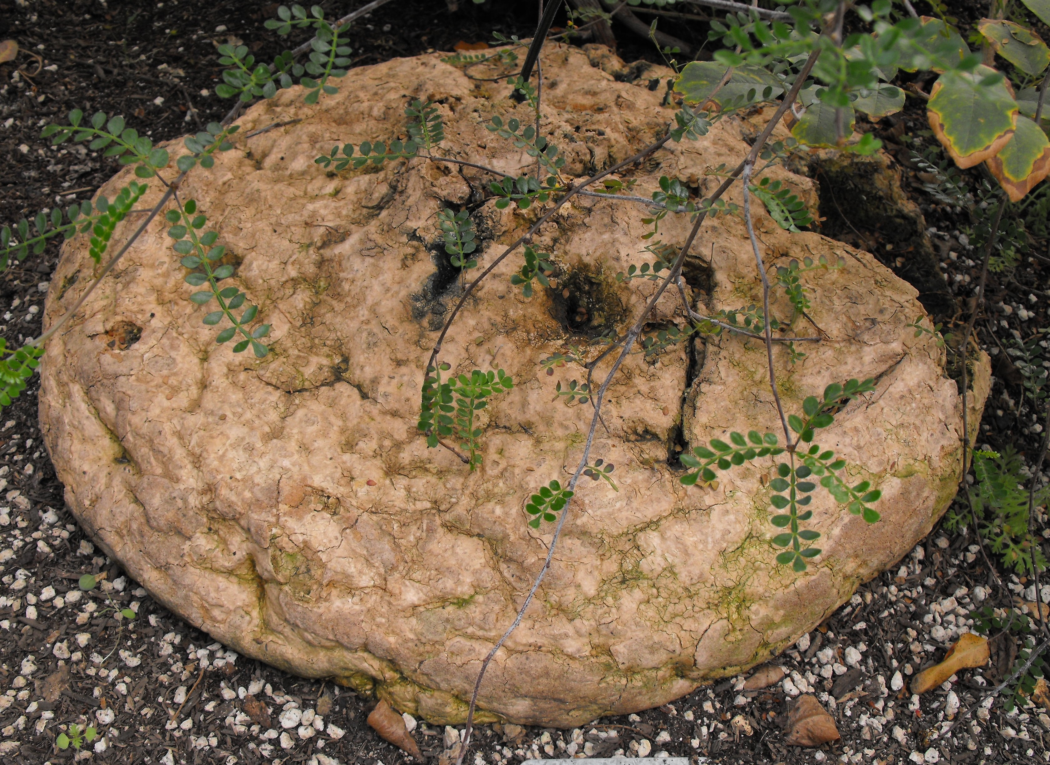 The caudex of Odosicyos bosseri at the Huntington Library & Botanical Gardens in San Marino, California, USA. Identified by sign.